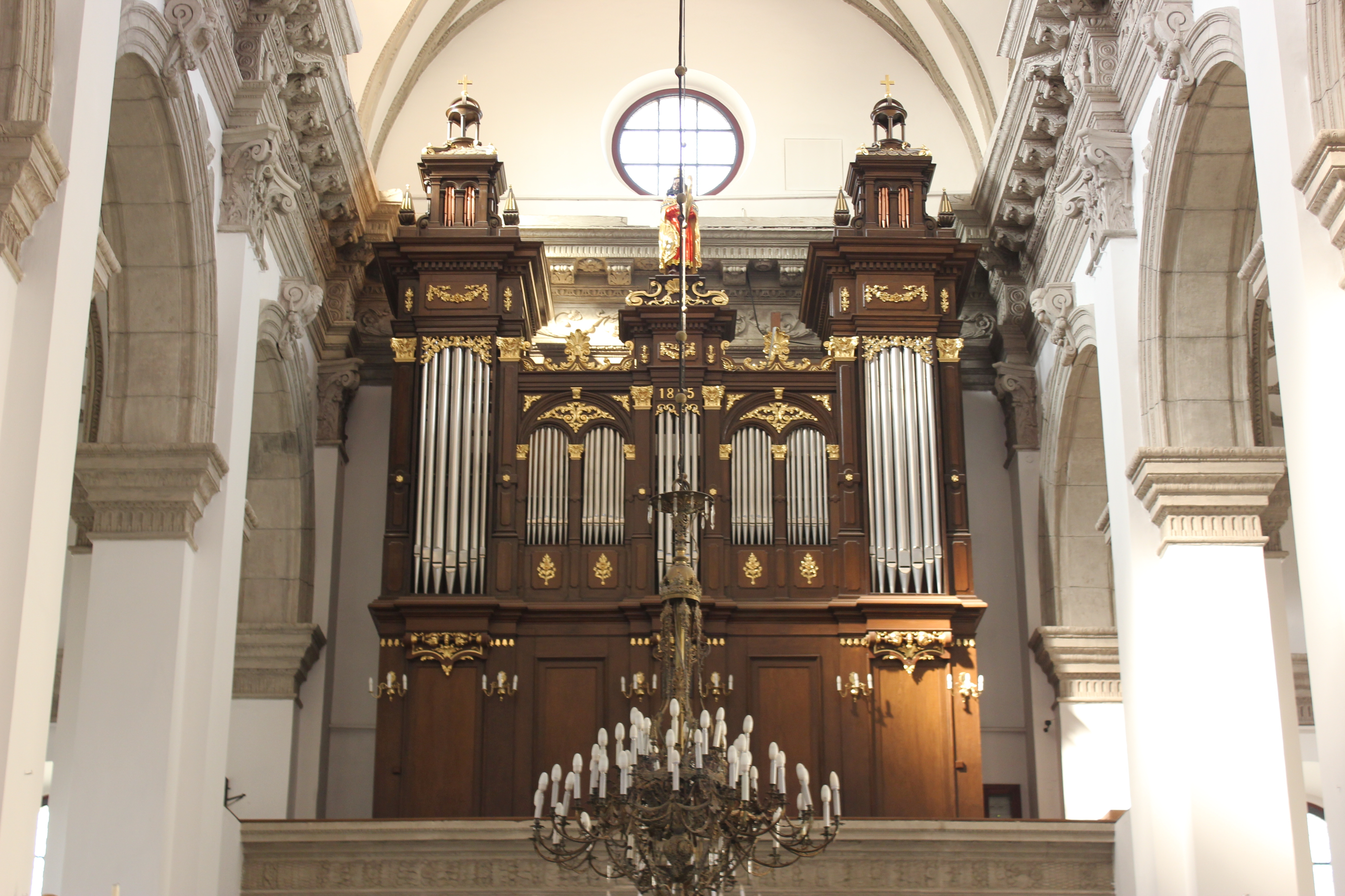 Zamość - cathedral